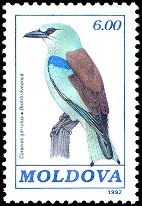 Stamp of Moldova